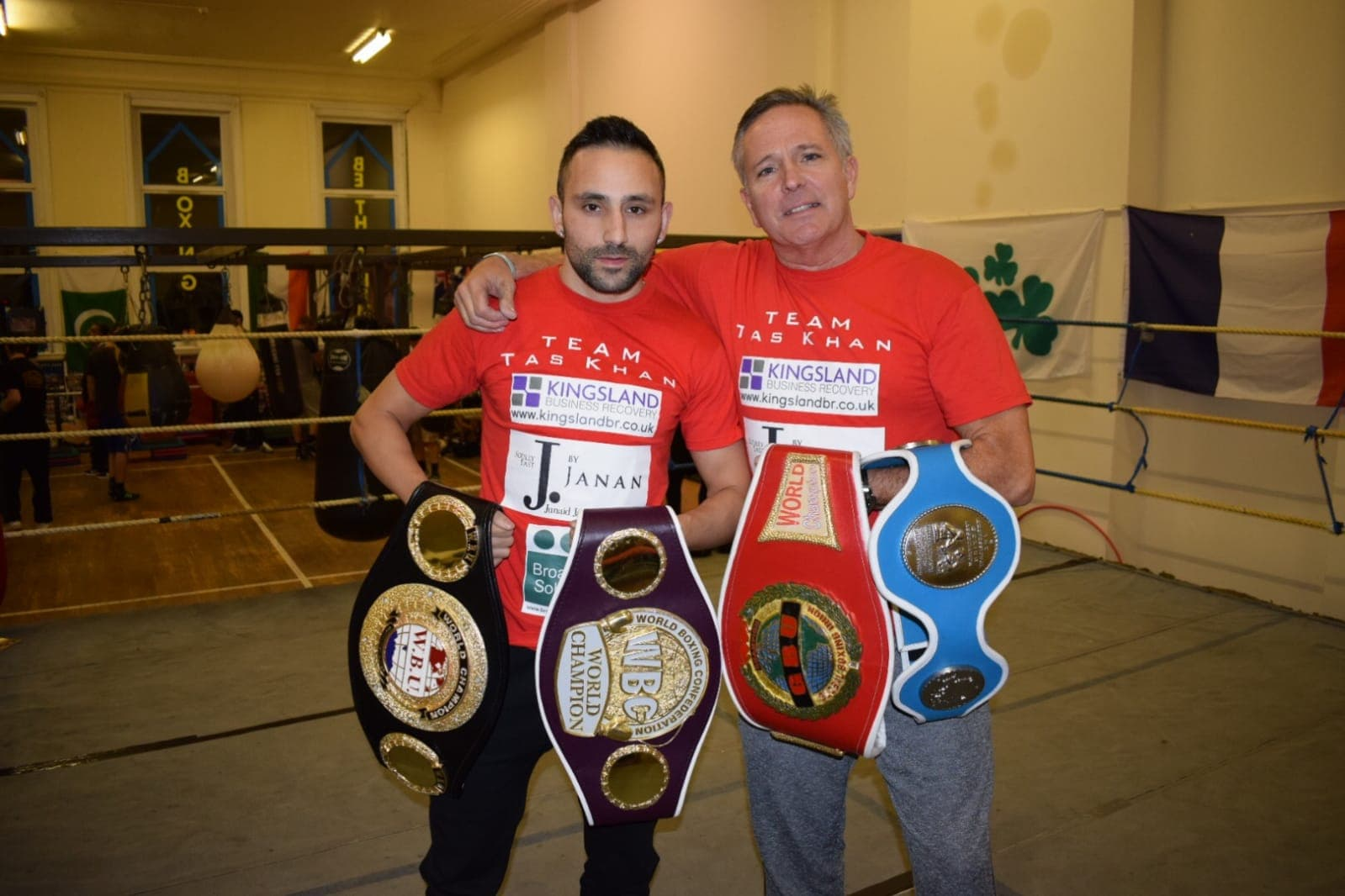 Tasif holds his Superflyweight World Championship, Superflyweight World Championship, Bantamweight World Championship and International Masters Championship belts.